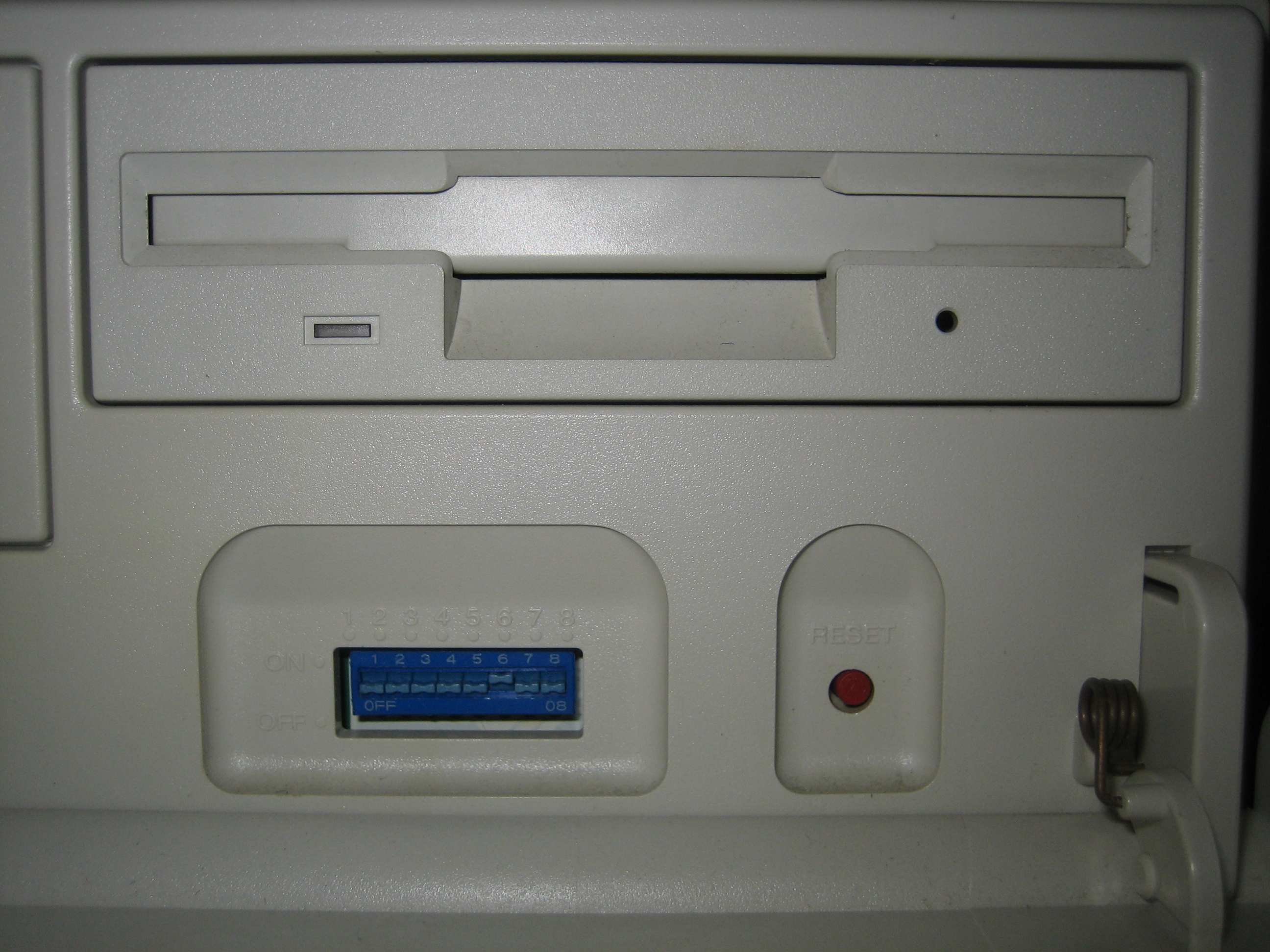 Close up view of the floppy drive, configuration dip switches, and reset button of a Sony NWS-3710 RISC workstation.